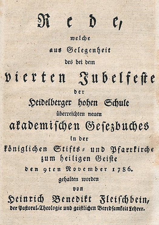 Jubiläumspredigt von Heinrich Benedikt Fleischbein, zum 400-jährigen Bestehen der Universität Heidelberg.